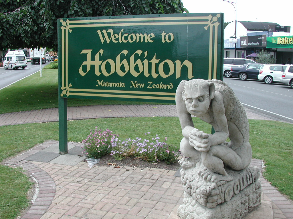 Hobbiton sign and Gollum statue on Broadway in Matamata